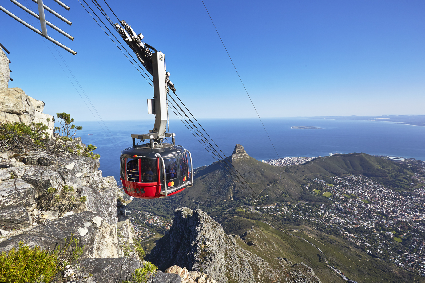 The state of the art cable car travelling up Table Mountain